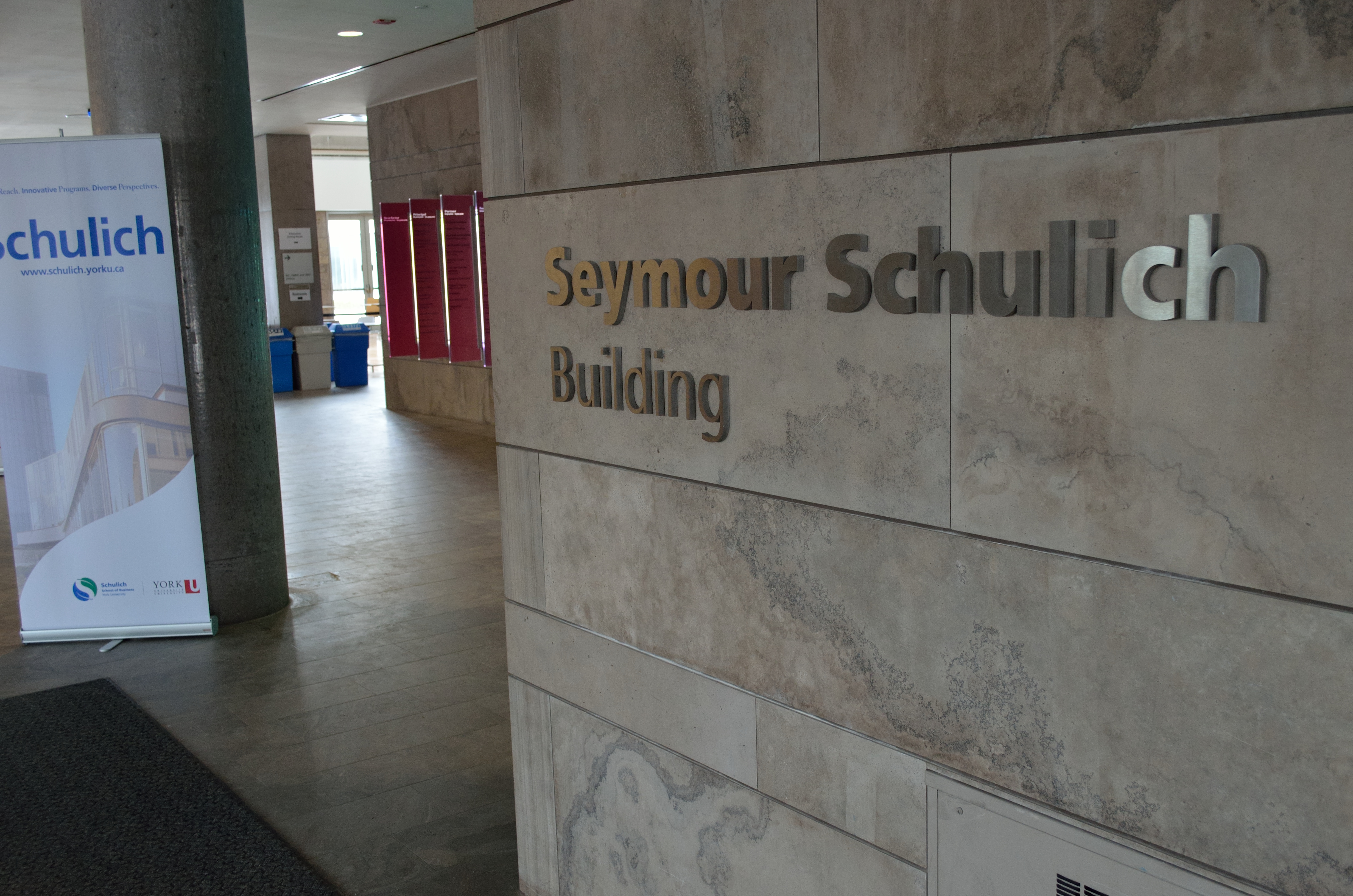 Seymour Schulich Building.